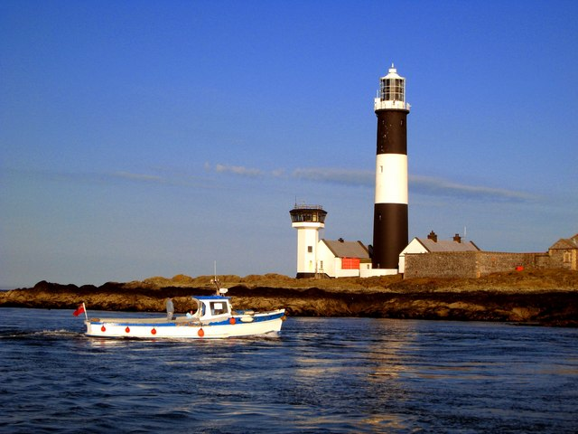 Mew Island Lighthouse [2] Another view of Mew Island Lighthouse - although now automatic, the Lighthouse seems to be checked by a (part time?) Lighthouse keeper from Donaghadee. He is in the foreground just arriving by boat from Donaghadee.